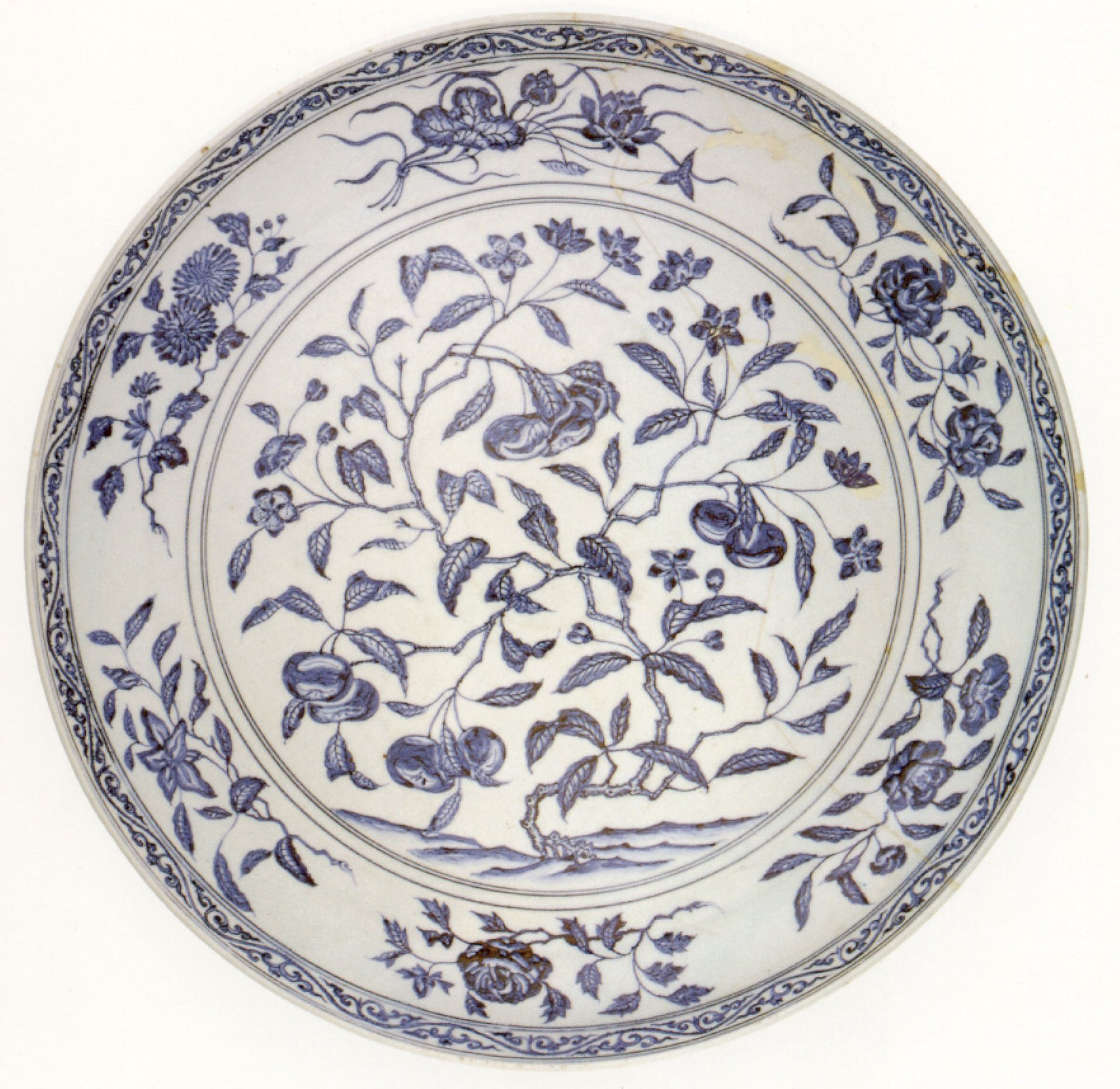 Chinese dish, Ming dynasty, Yung-lo period (1403-1424), porcelain with underglaze blue, 23 in. (58.4 cm.) diameter, Honolulu Academy of Arts